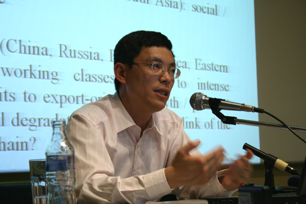 Li Minqi speaking on Subversive Festival, Zagreb, 2009